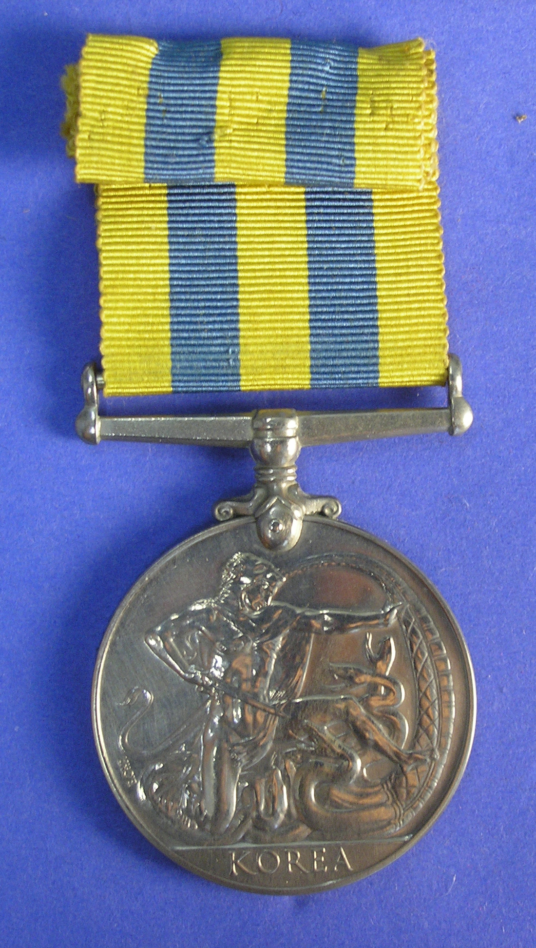 Korea Medal 1950-53, awarded to Gunner William Henry Deakin, RNZA (service No 203866), Korean War